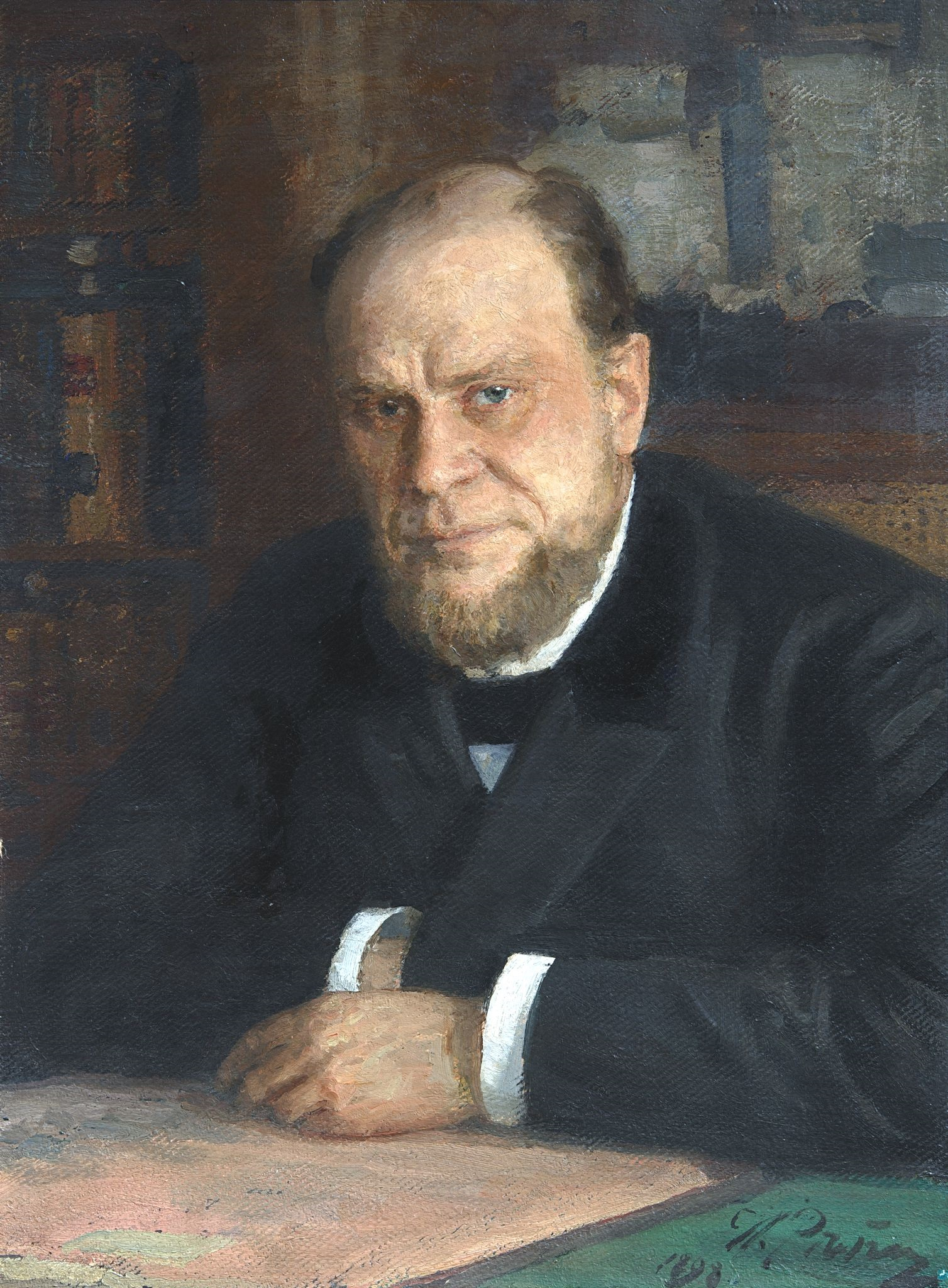 Portrait of lawyer Anatoly Fyodorovich Koni